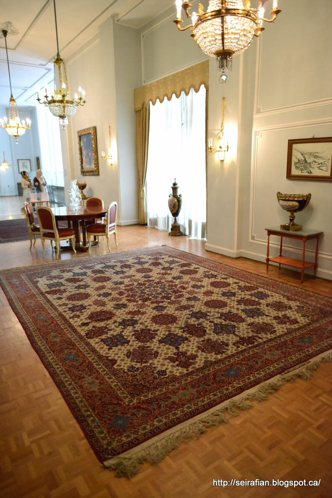 Beautiful masterpiece by Mohammad Seirafian in Niavaran Palace (residence of Mohammad Reza Shah Pahlavi, Shah of Iran)